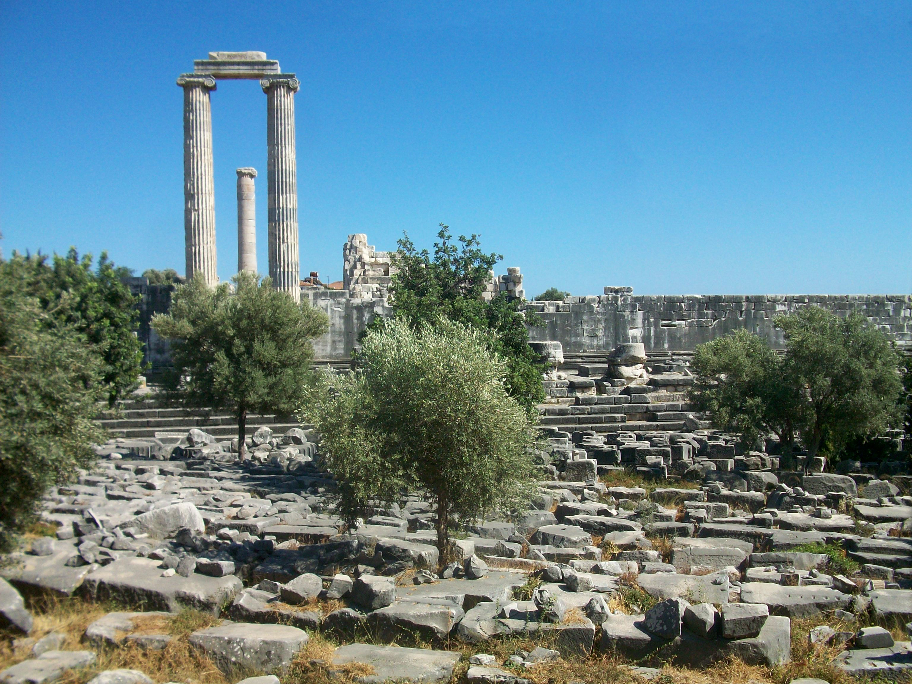 Apollon Temple, Didyma, Aydın/Turkey